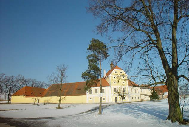 Kalec On Winter